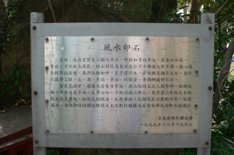 Information about the Testicles Rock in Cha Kwo Ling, Hong Kong